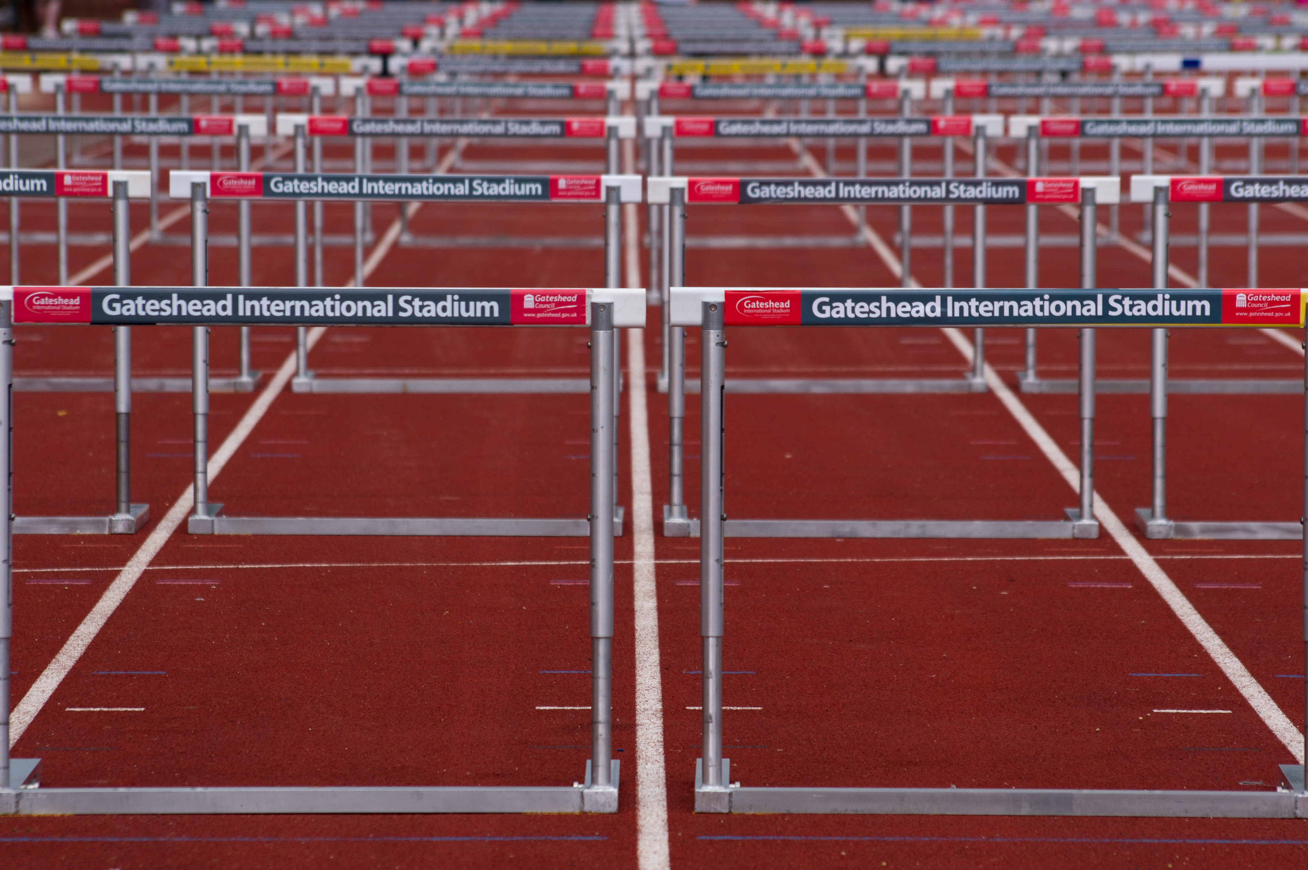 for athletics